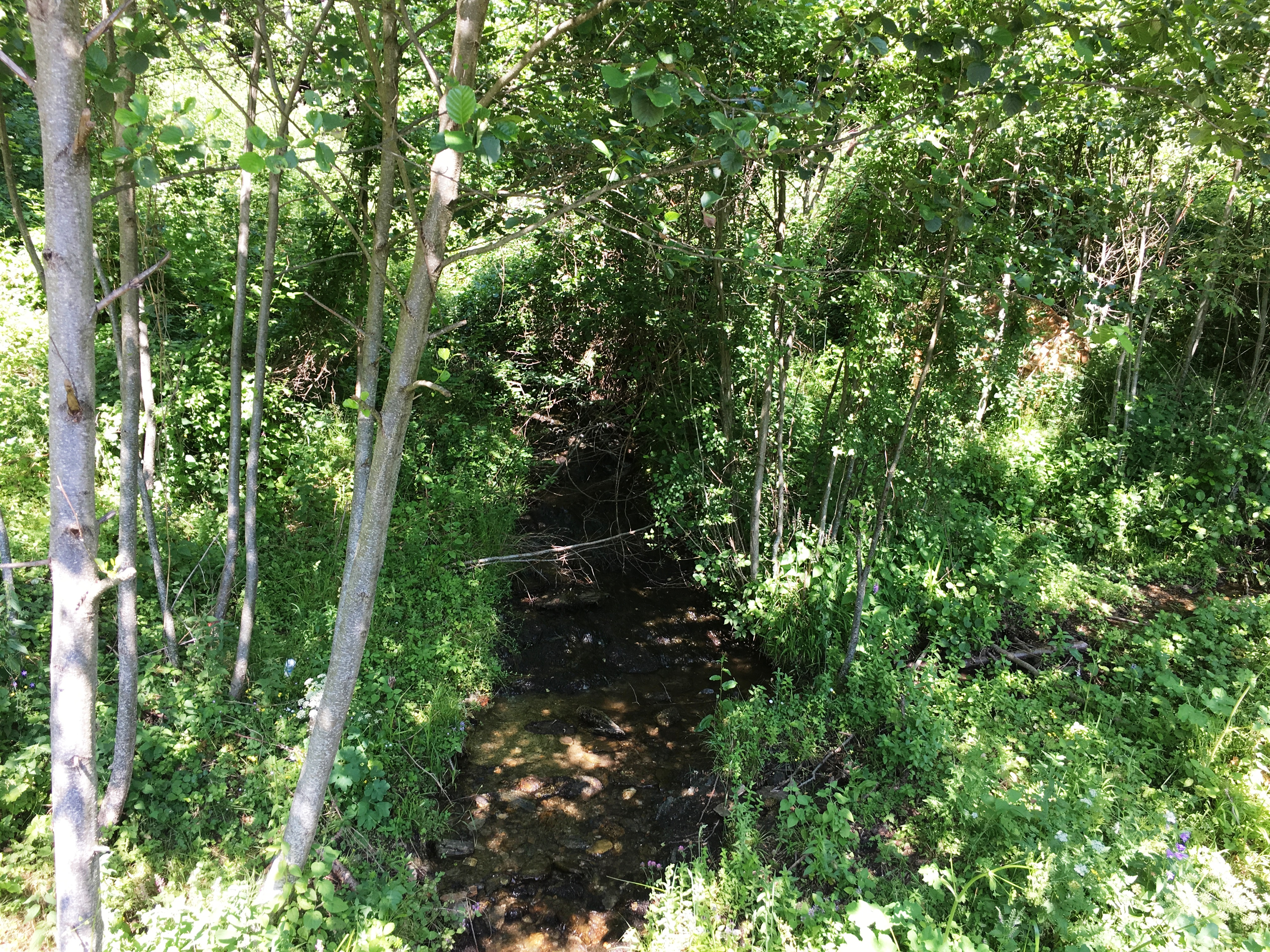 Slatina River near the village of Gorno Krušje